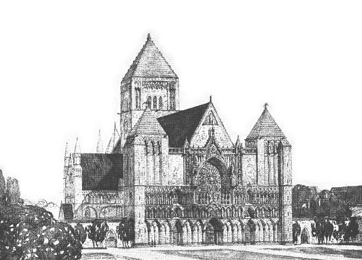 "Epos plan" for restoration of Nidaros Cathedral, Trondheim, Norway, as drawn by Olaf Nordhagen (d. 1925) in 1914.